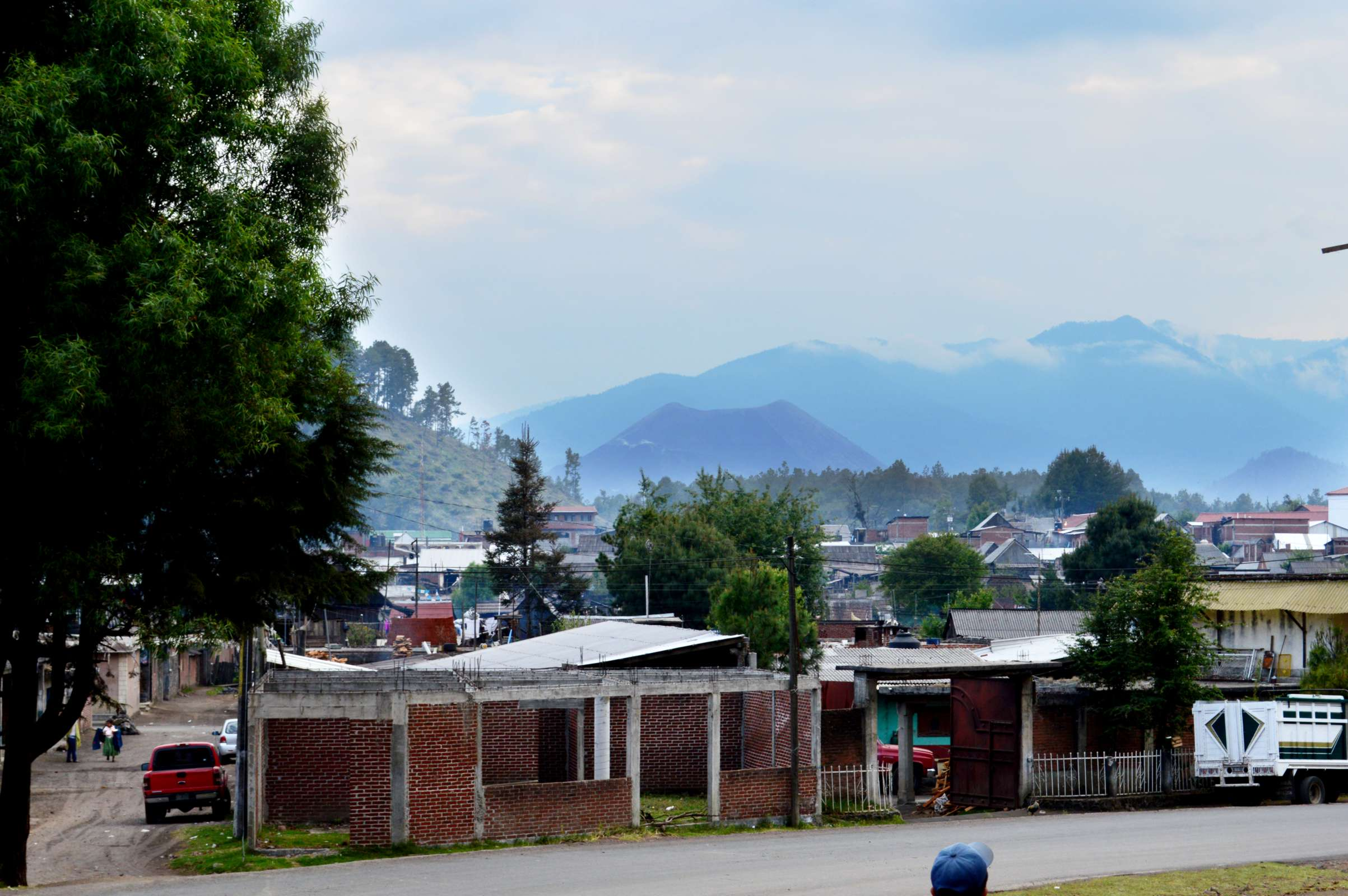 View of the Paricutin Volcano from the town of Angahuan, Michoacan, Mexico